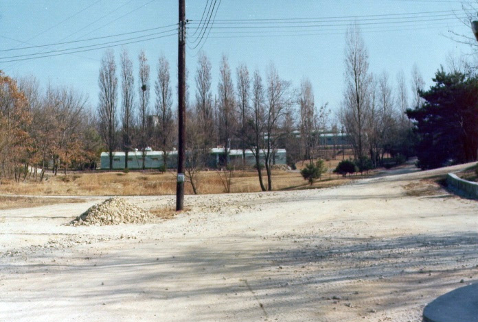 Looking into the Neutral Nations Supervisory Commission's camp from CP#5 in January, 1976. This is the camp for members of the Swedish and Swiss delegations.